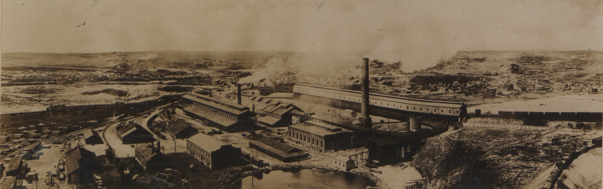 Original caption: “Bird's Eye View of the Smelting Works of the Canadian Copper Co., Ontario.”